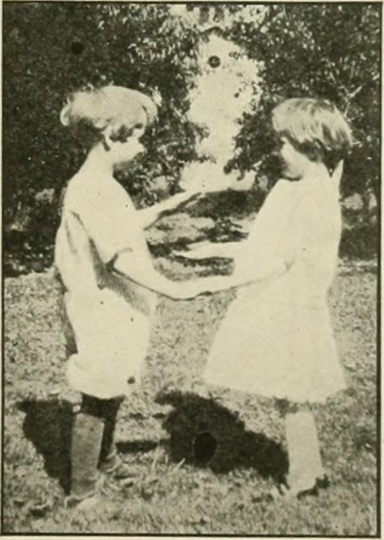 Title: Rhythmic action plays and dances; a book of original games and dances, arranged progressively, to Mother Goose and other action songs, with a teaching introductory; for the kindergarten, primary schools, playground and gymnasium Year: 1915 (1910s) Authors: Moses, Irene Elizabeth (Phillips), b. 1884 Subjects: Dance Games Publisher: Springfield, Mass. : Milton Bradley company Text Appearing Before Image: ' Text Appearing After Image: Clap own hands. Clap partners left hand withthe right hand. 122 RHYTHMIC ACTION PLAYS AND DANCESand one Clap own hands. for thedame, Clap partners hand with left. And none for the little